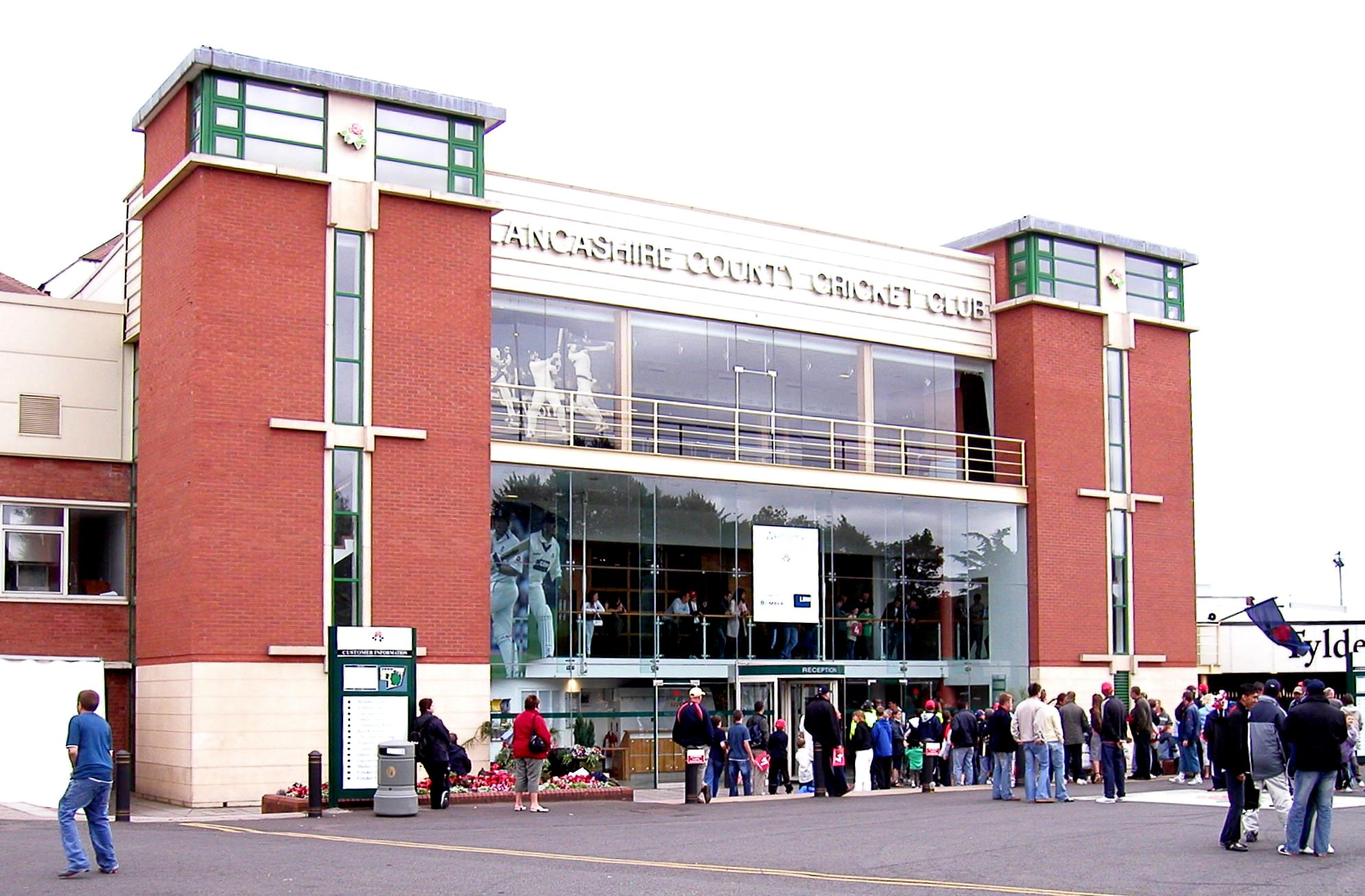 Main entrance of Lancashire County Cricket Club - July 2006